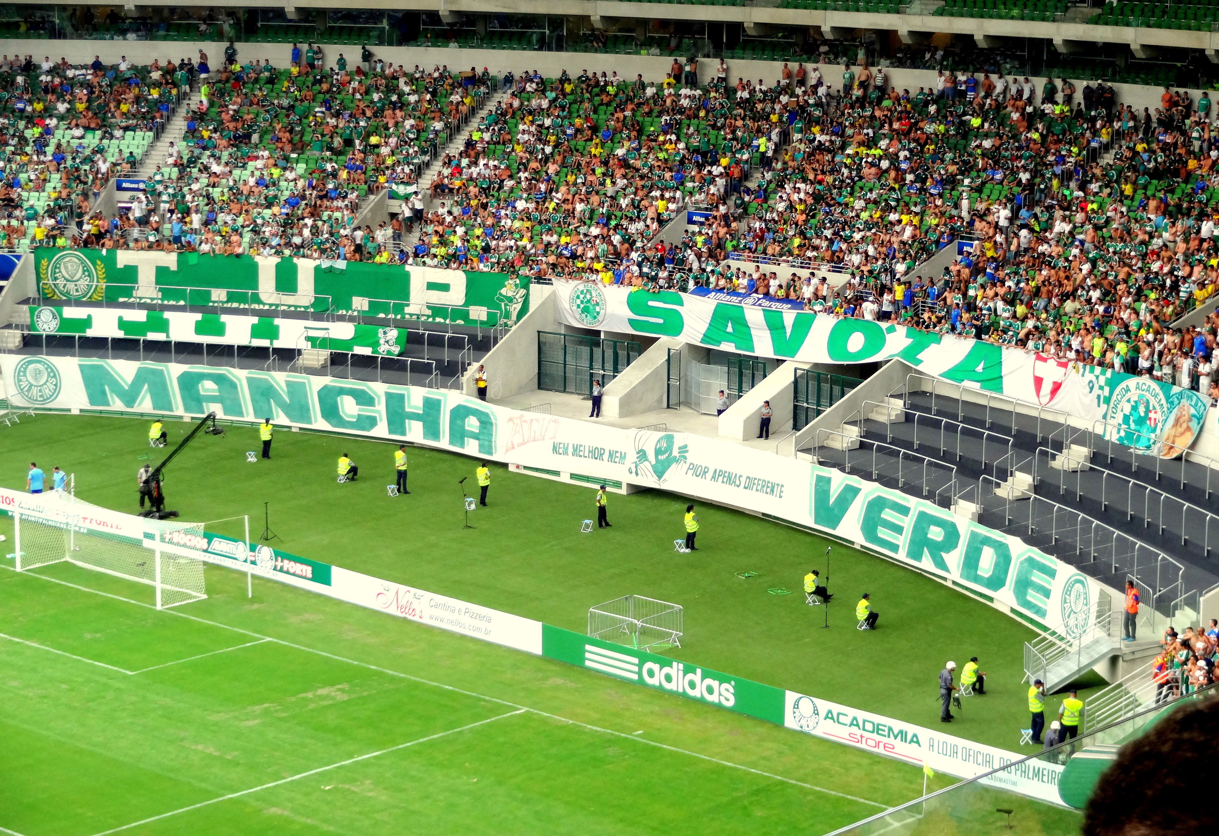 Allianz Parque is a multipurpose stadium in São Paulo, Brazil, built to receive shows, concerts, corporate events and especially football matches of Sociedade Esportiva Palmeiras, the site owner.